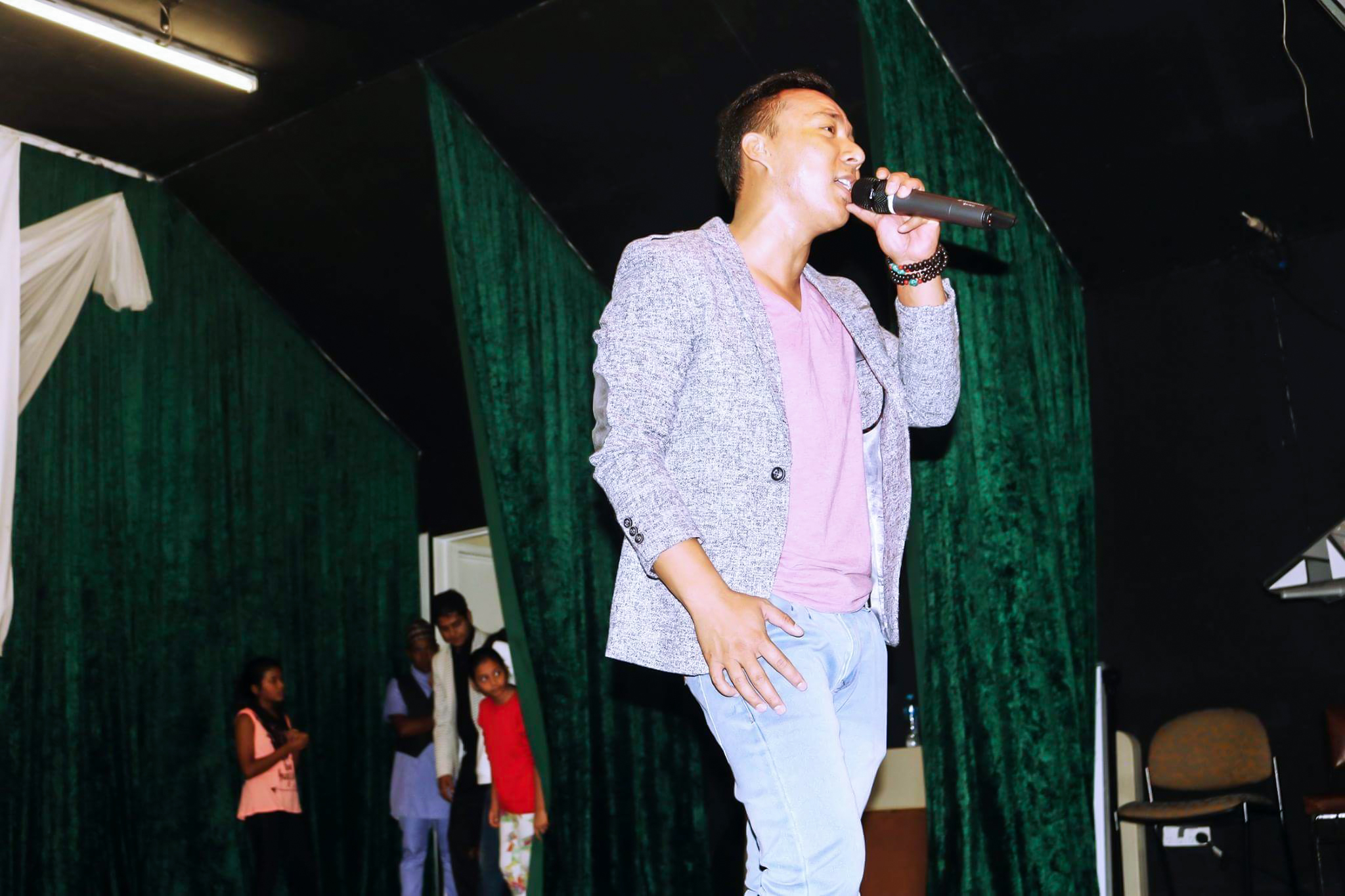 Santosh Lama (Template:Lang-ne): (born July 21, 1986 ) is a nepali singer.